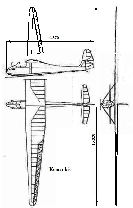 Polish Glider Komar-bis